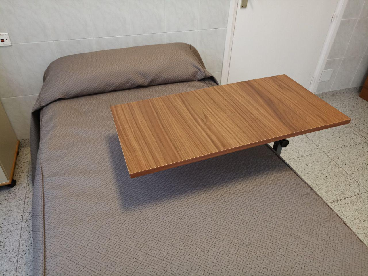 Portable Foldable and orientable Bed Table with retactable telescopic legs